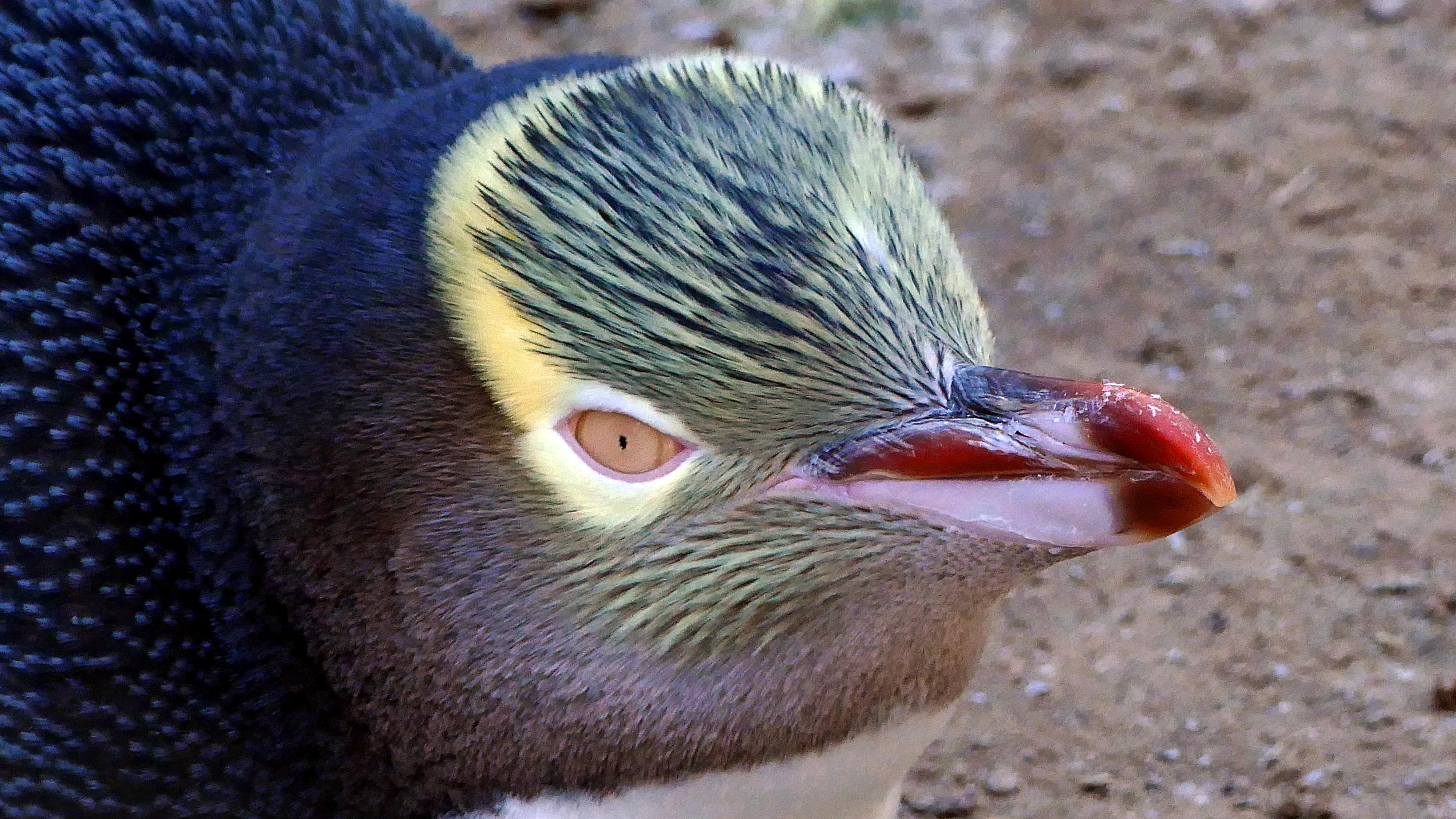 It is found only in New Zealand. They are found mostly on the southeast coast of the South Island, Stewart Island and on the subantarctic Campbell and Auckland Islands. Their numbers on the mainland have declined because of predators and the loss of their habitat, and are now only approximately one fifth of the total population. Yellow eyed penguins are New Zealand's largest penguins, growing to a height of up to 75 cm. They are also long-lived, sometimes living for 20 years. Hoiho feed on a diet of fish, such as sprat, red cod and squid. They go to sea during the daylight hours and spend their time feeding 5-15 kilometres from the shore. Young hoiho chicks are covered in thick brown down and then feathers until their adult plumage comes in when they are about 14 months old.